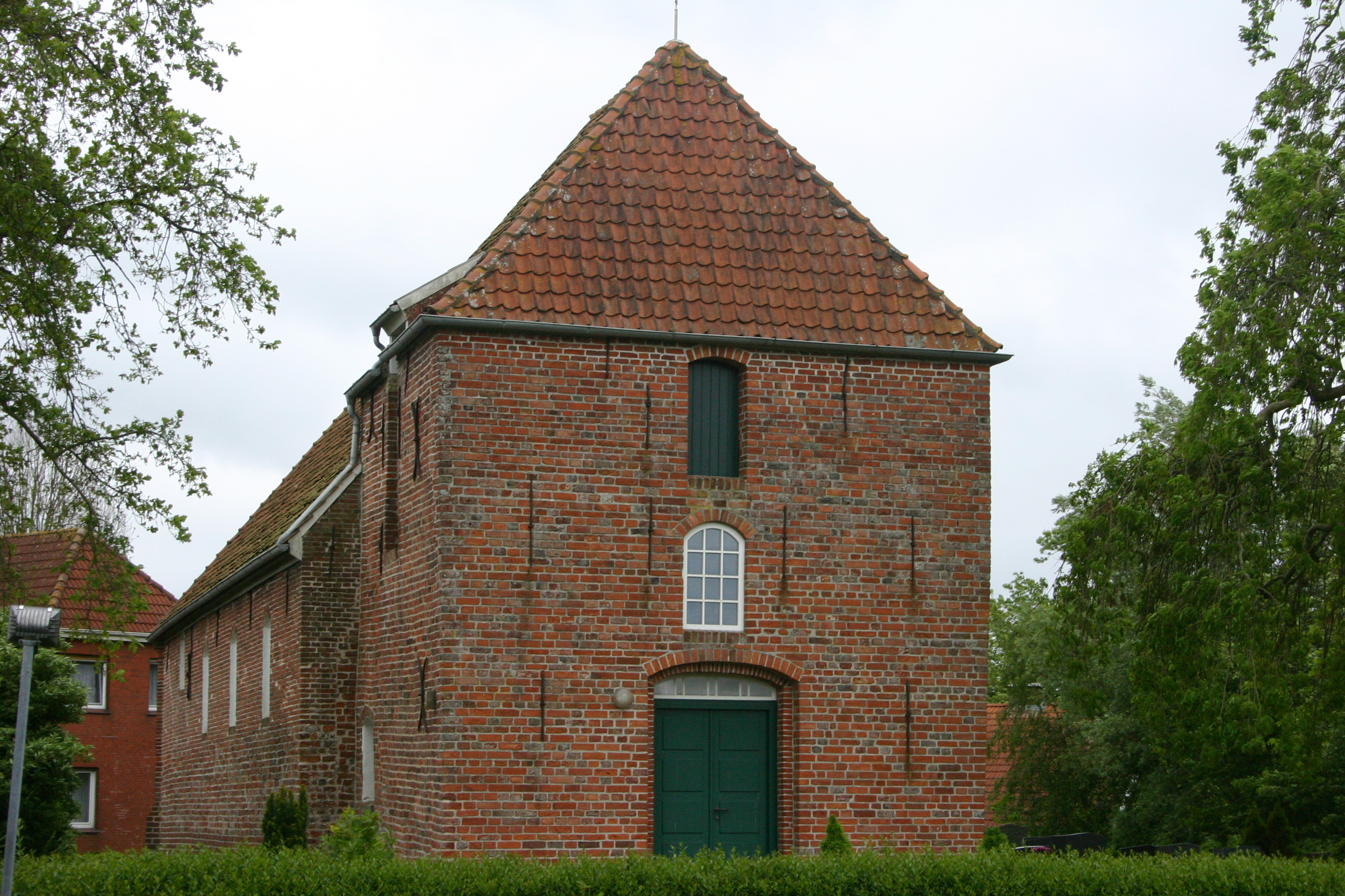 Historic church in Westerbur, district of Aurich, East Frisia, Germany